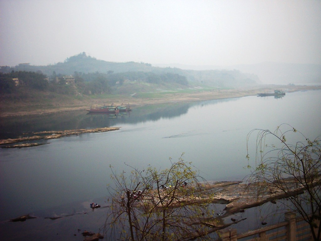 A view of Jialing River flowing through Hechuan, Chongqing, China. The photo was taken by Mr Chen Hualin on January 10, 2005.